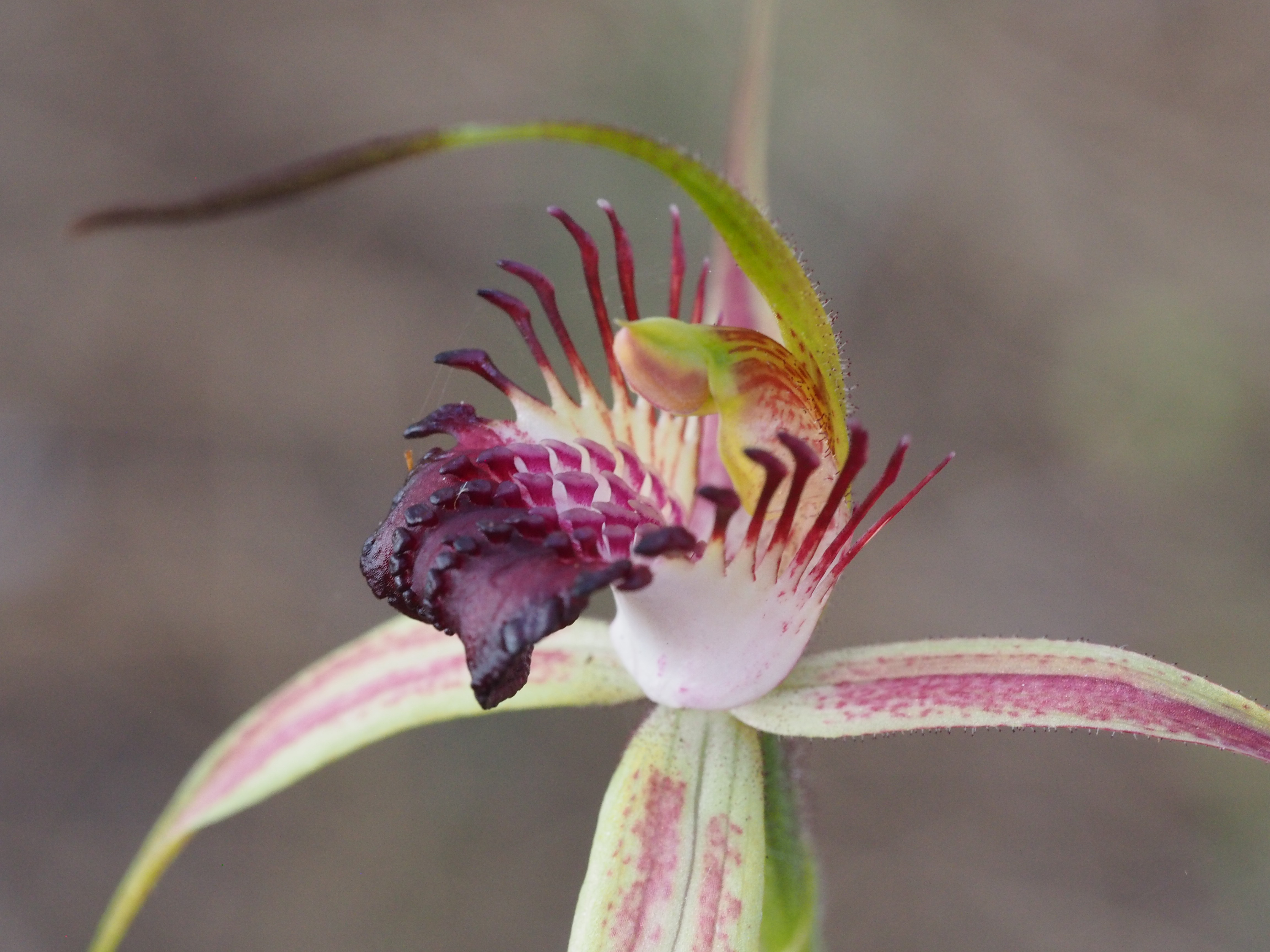 Caladenia paludosa growing in the Jandakot Regional Park in Perth, Western Australia